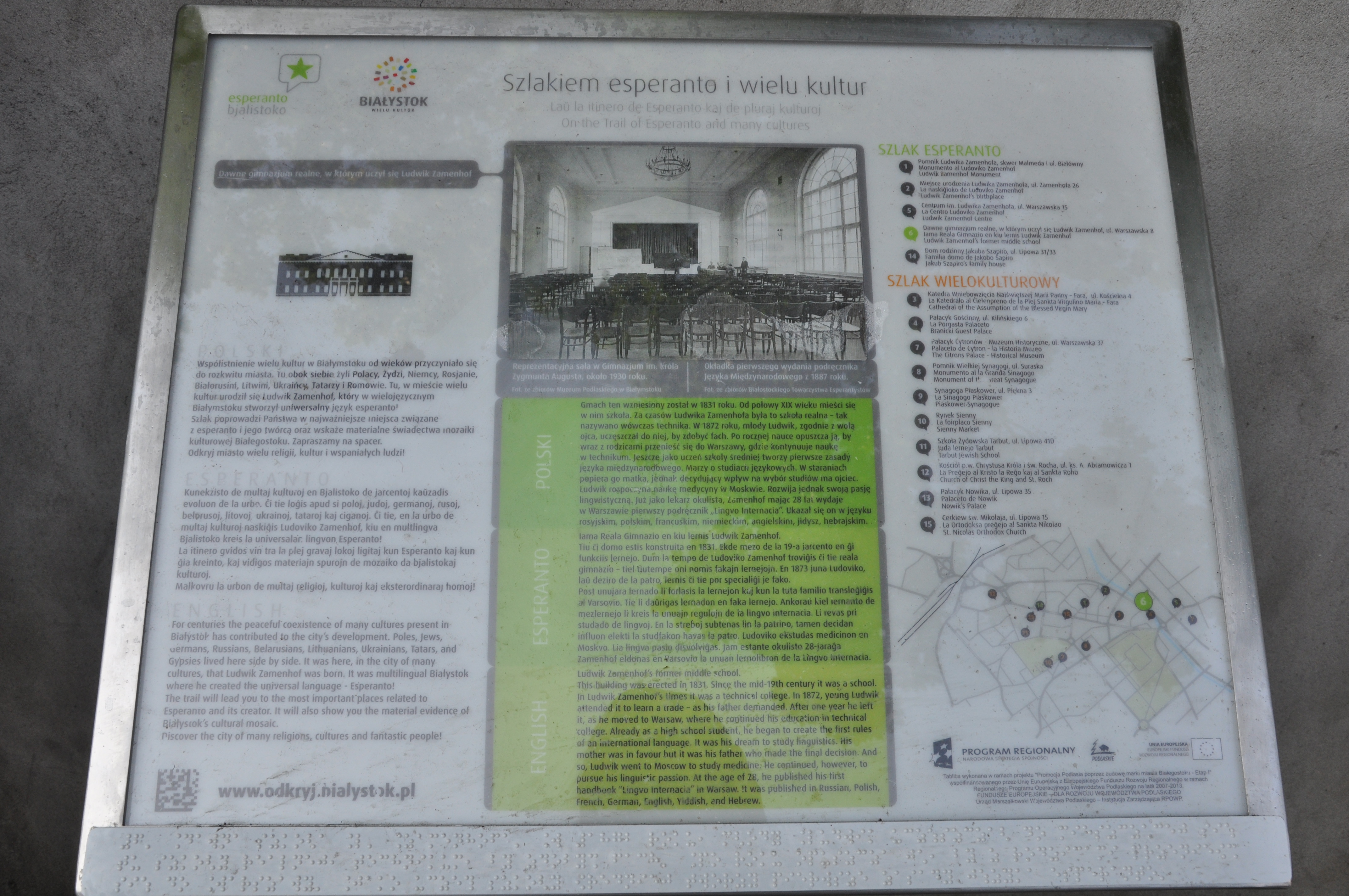 An information sign (part of a Jewish Heritage Trail in Bialystok project) situated next to VI High School - King Sigismund Augustus. The informations are given in Polish, Esperanto, English and Braille (visible at the bottom of the sign).